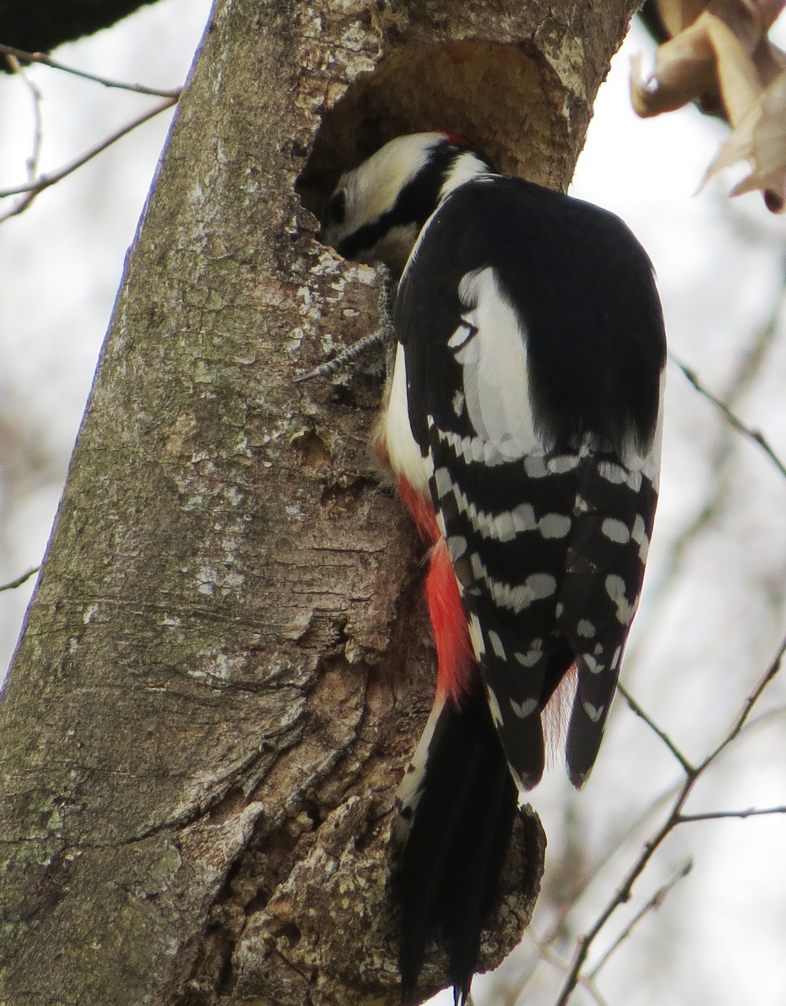 Great Spotted Woodpecker (Dendrocopos major hondoensis), female, in Japan.